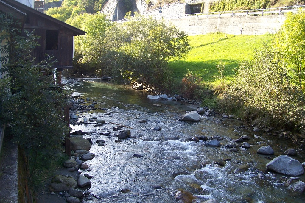 Ogliolo river. Val Camonica, Italy